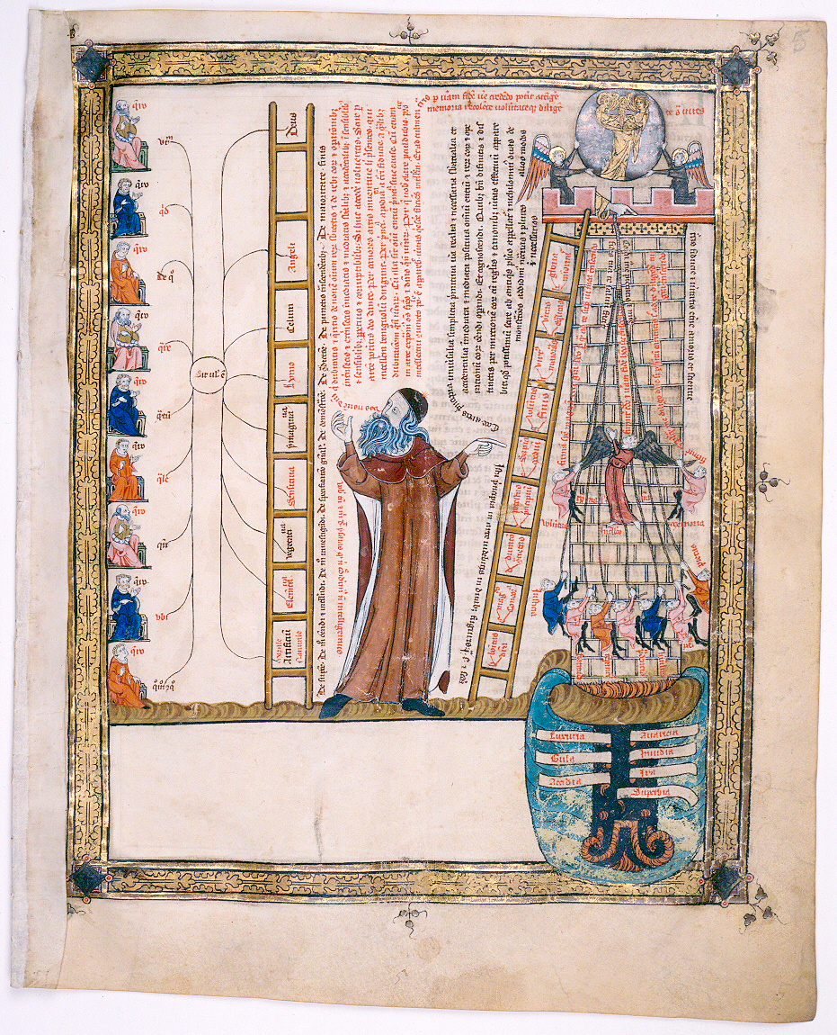 Raimundus Lullus, Thomas le Myésier: Electorium parvum seu breviculum (after 1321) Badische Landesbibliothek, Cod. St. Peter perg 92, Blatt 5r